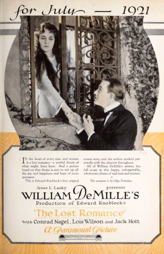 Advertisement for the American drama film The Lost Romance (1921) with Lois Wilson and Conrad Nagel, from the insert after page 10 of the May 21, 1921 Exhibitors Herald.